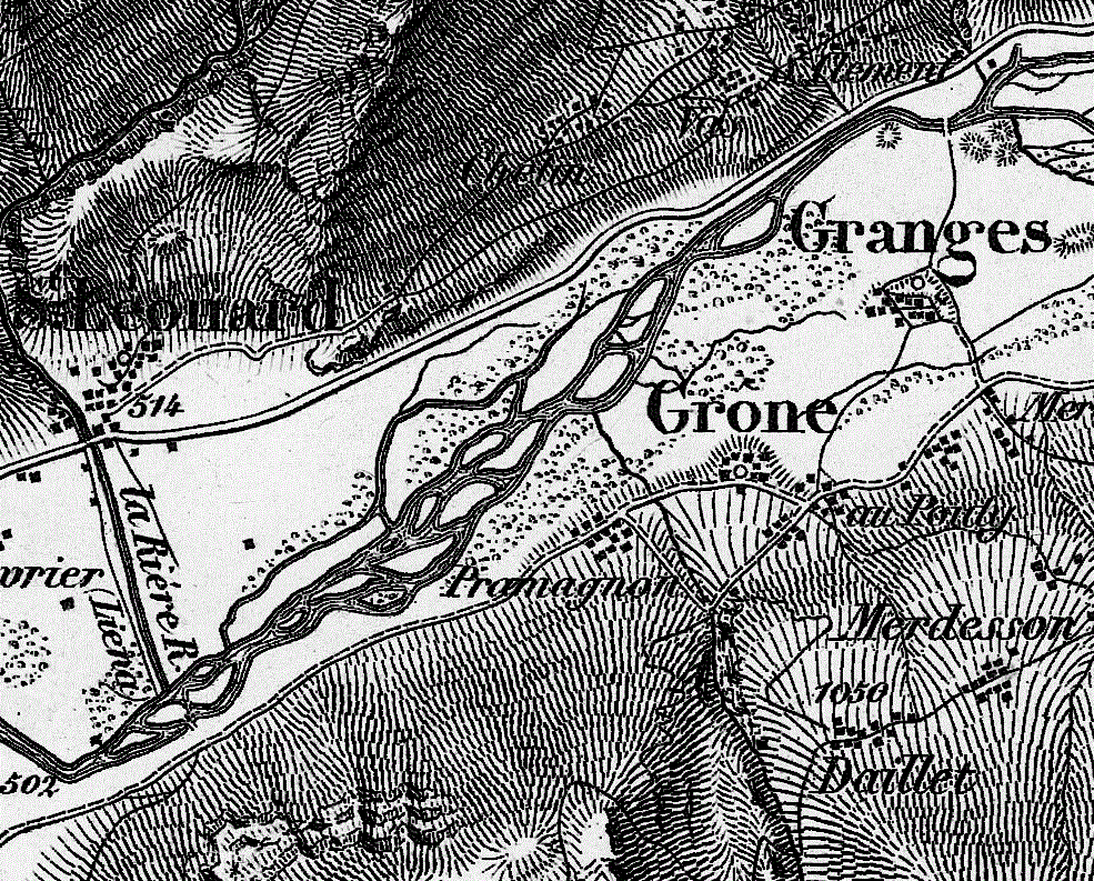 Rhone river